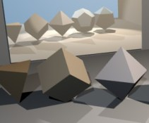 Polyhedra fragment.